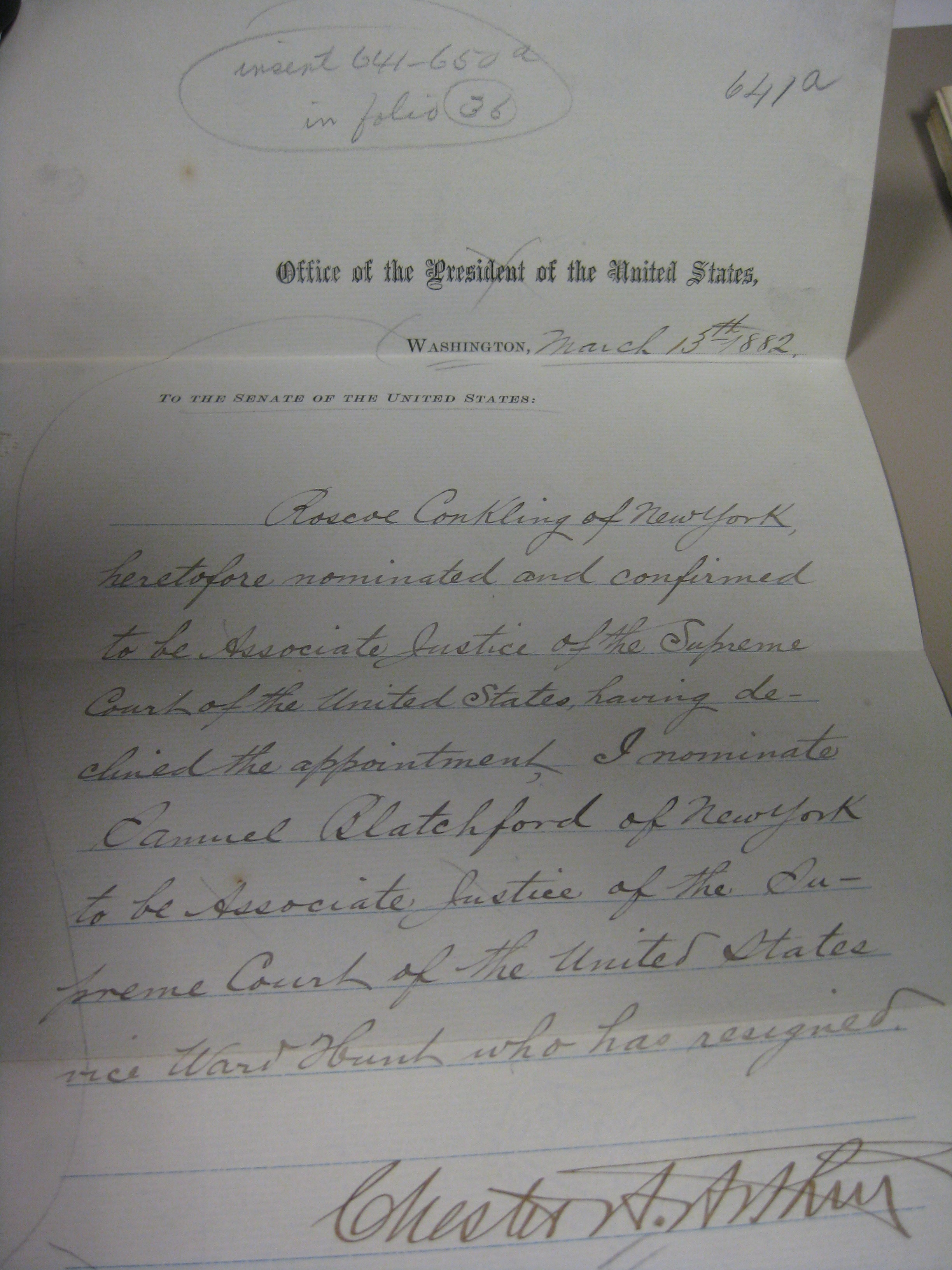 Chester Arthur's nomination of Samuel Blatchford to serve on the U.S. Supreme Court. Courtesy of the National Archives and Records Administration.